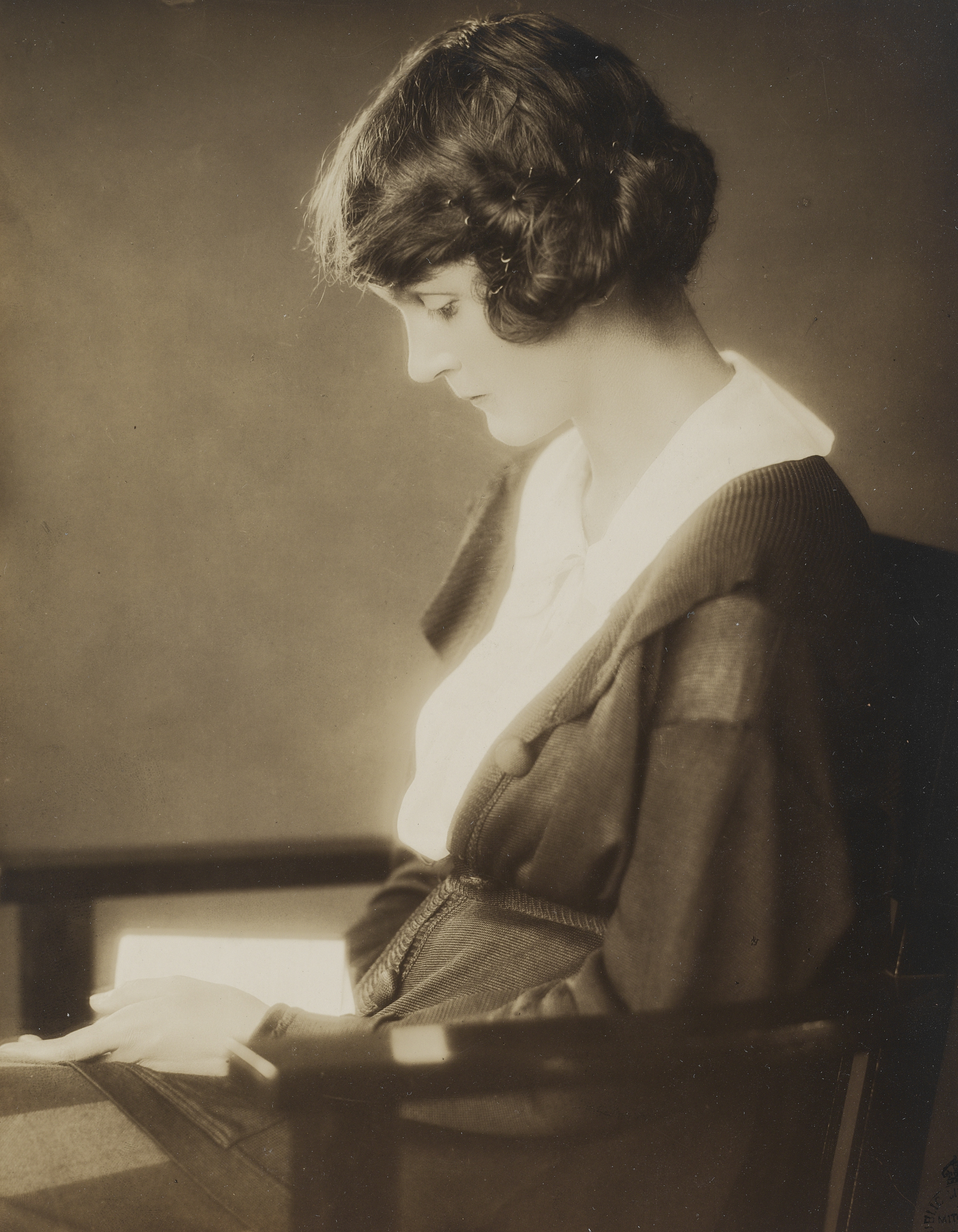 Format: Silver gelatin photoprint Notes: Dulcie Deamer (1890-1972) was an Australian novelist, playwright, short story writer and bohemian. Find more detailed information about this photograph: Search for more great images in the State Library's collections: From the collection of the State Library of New South Wales